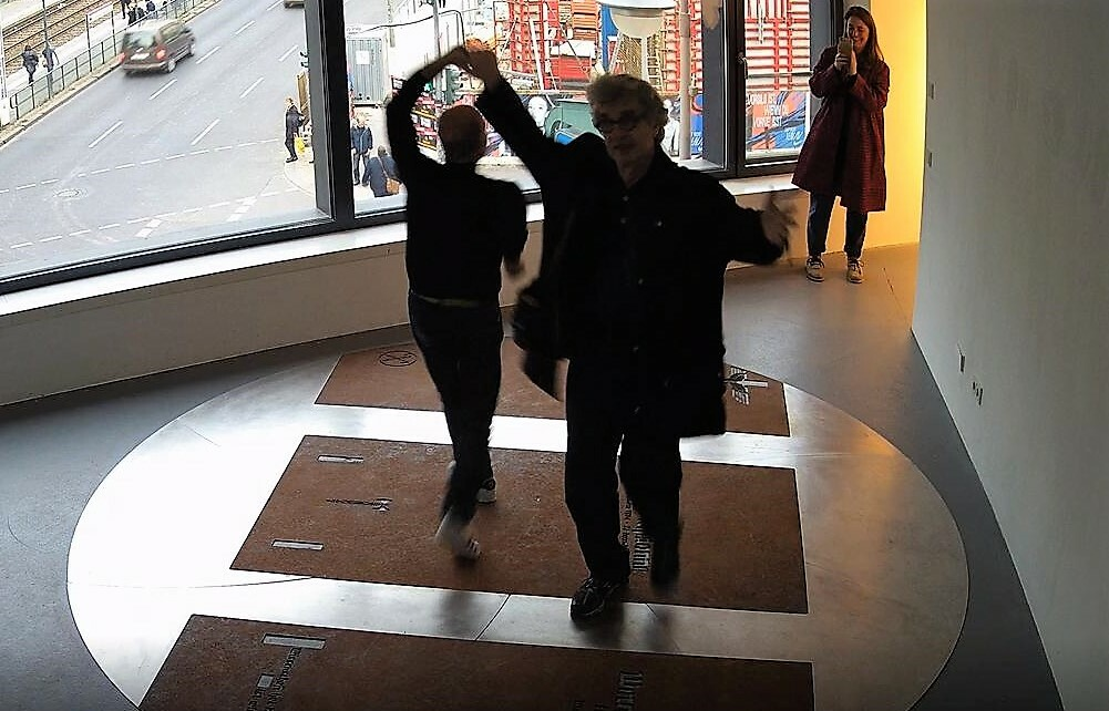 Arnaud Cohen and Wim Wenders dance together on Arnaud Cohen's performance sculpture Dance over me, exhibited in Berlin at the Kunstverein am Rosa Luxemburg Platz in October 2017